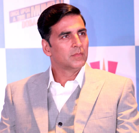 Akshay Kumar at press conference of Once Upon A Time In Mumbai Dobaara